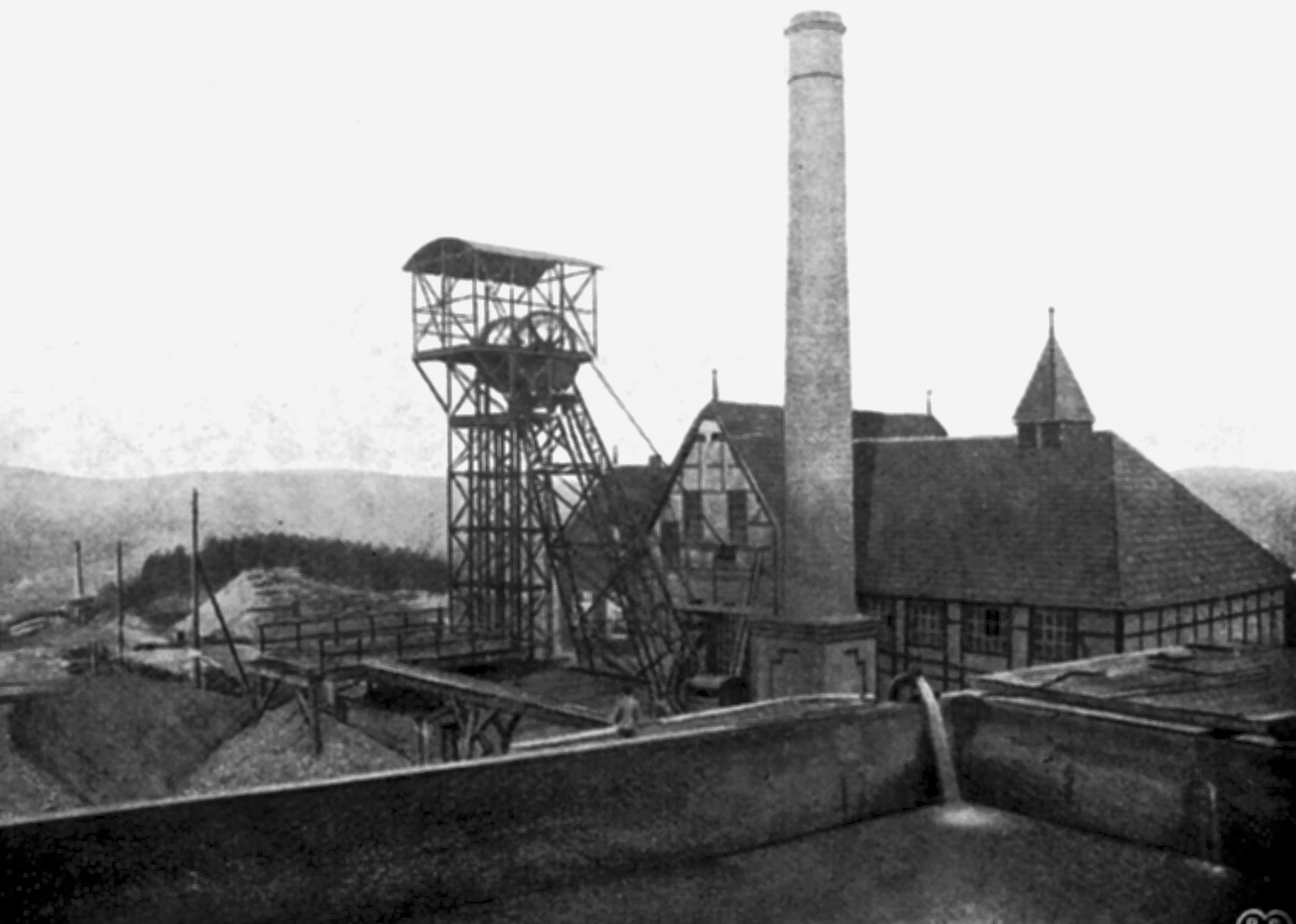 cheefshaft Lüderich 1902